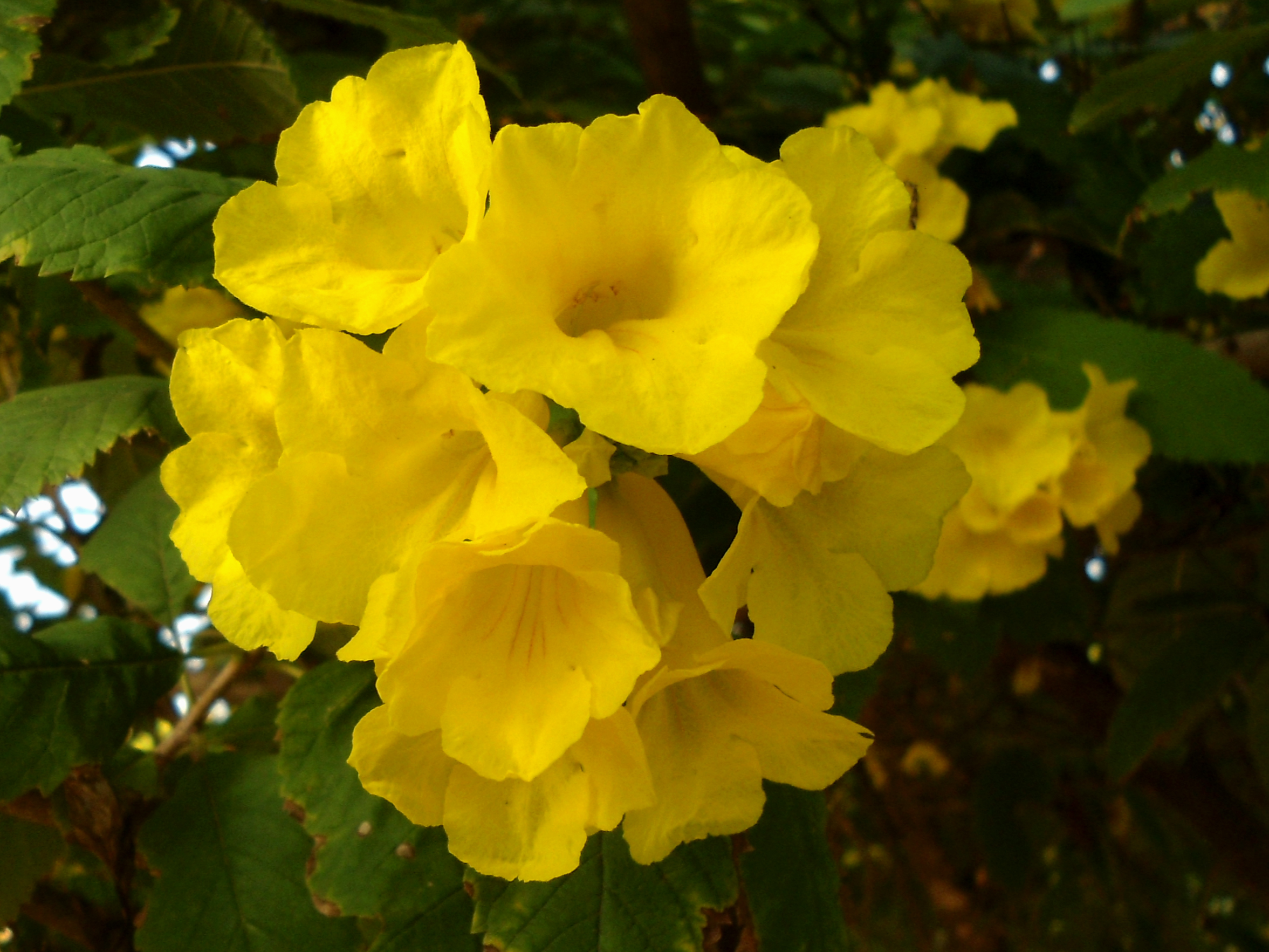 Tecoma stans yellow bell flowers at Shilparamam Jaatara, Madhurawada